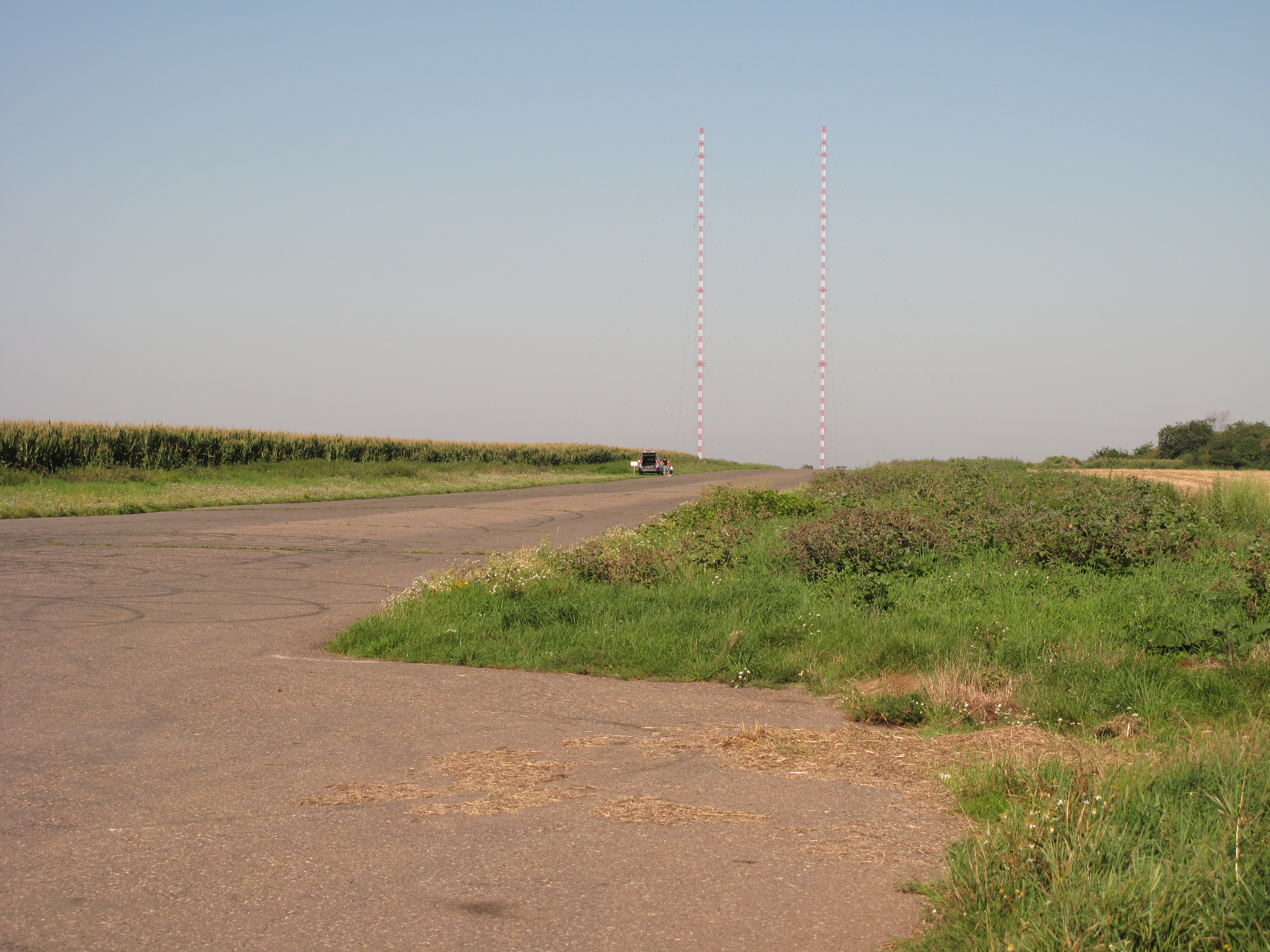 Chrášťany Airport, Kolín District, Czech Republic.